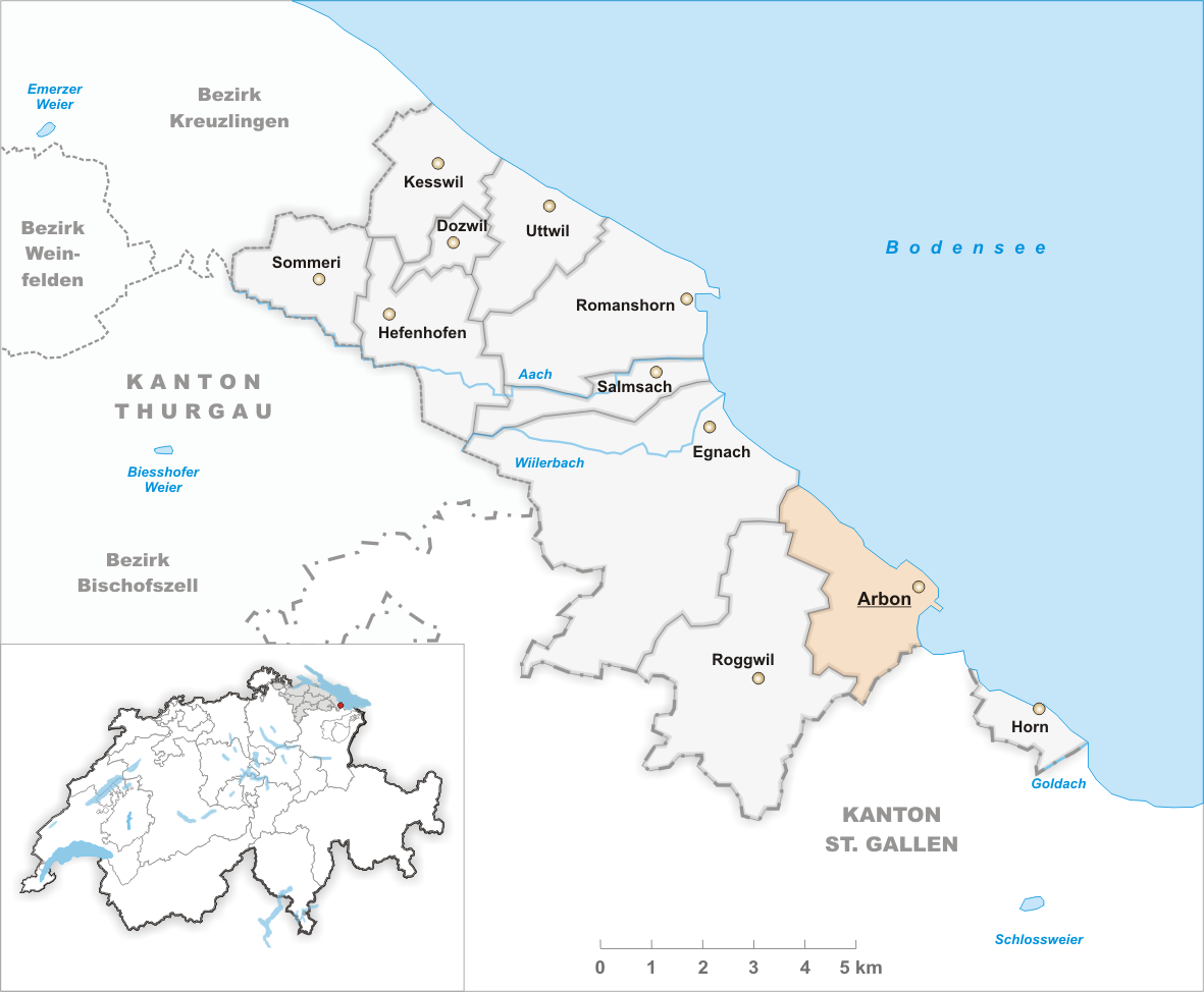 Municipality Arbon